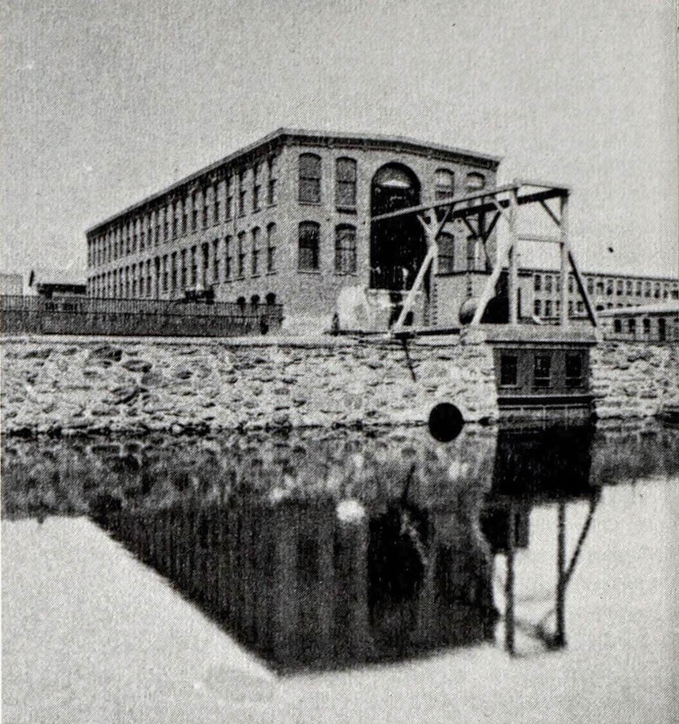 The Holyoke Testing Flume, as seen from across one of Holyoke's canals.